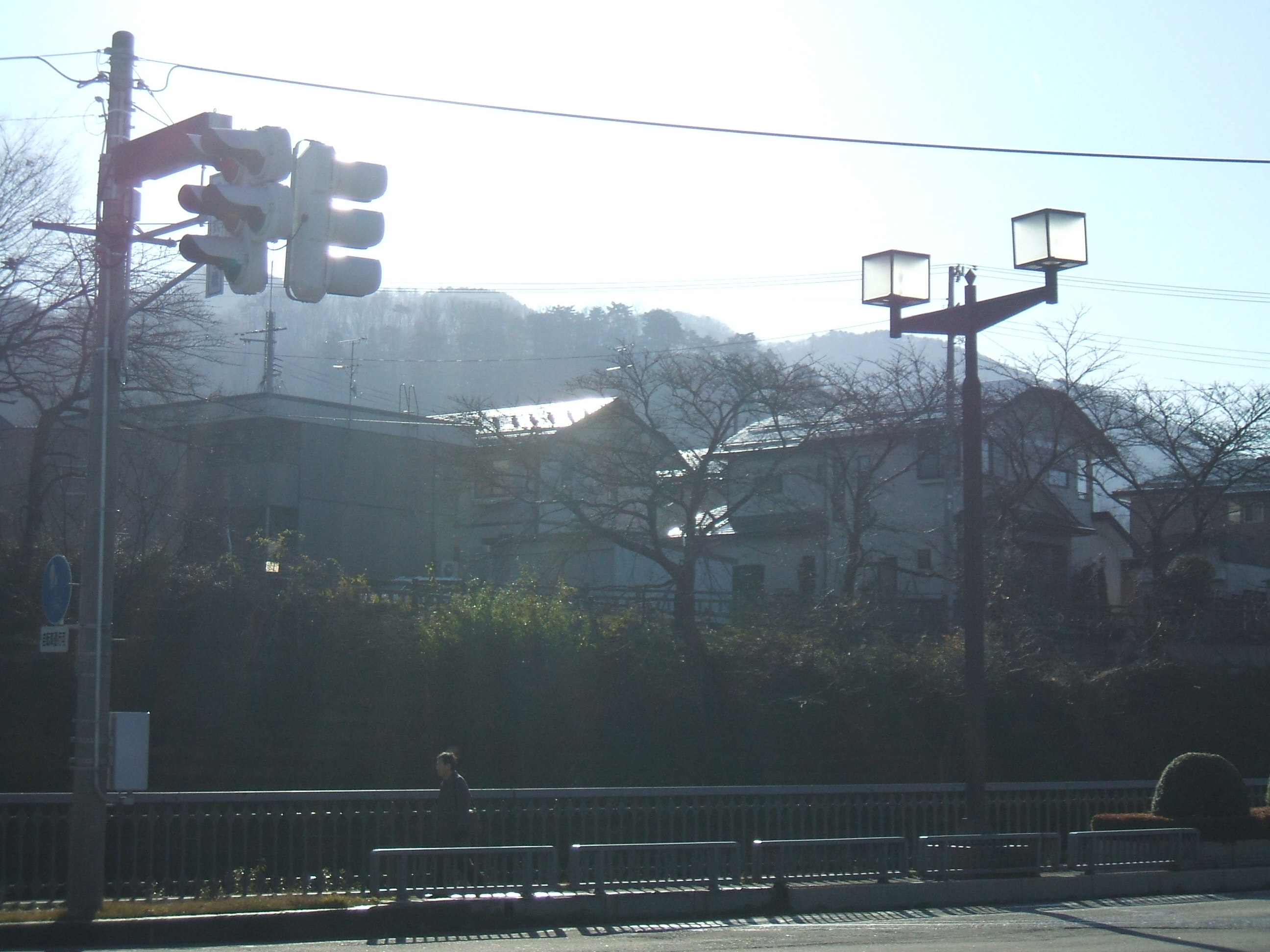 Odayama. It was taken at Odabasi-bridge, Aizuwakamatsu.